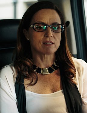 Claudé Maillé in La Hermandad